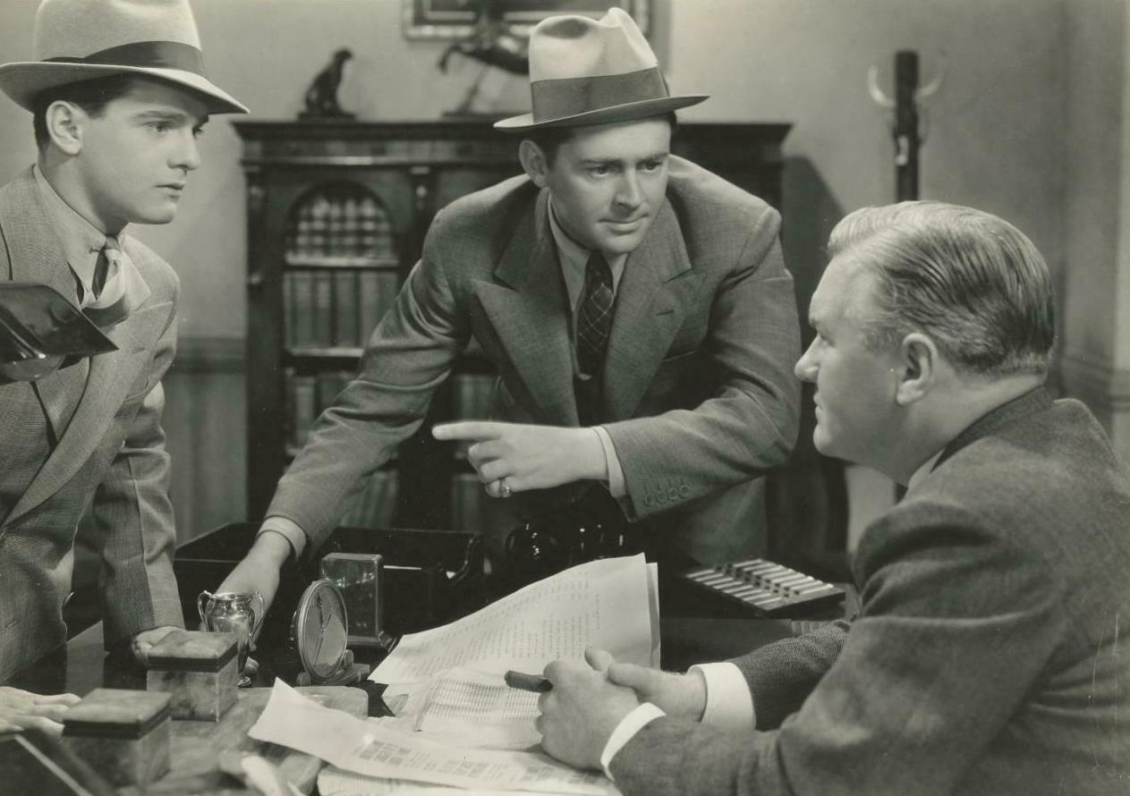 Press photo of Frankie Darro, James Dunn, and Joseph Crehan in the 1936 film "The Payoff"